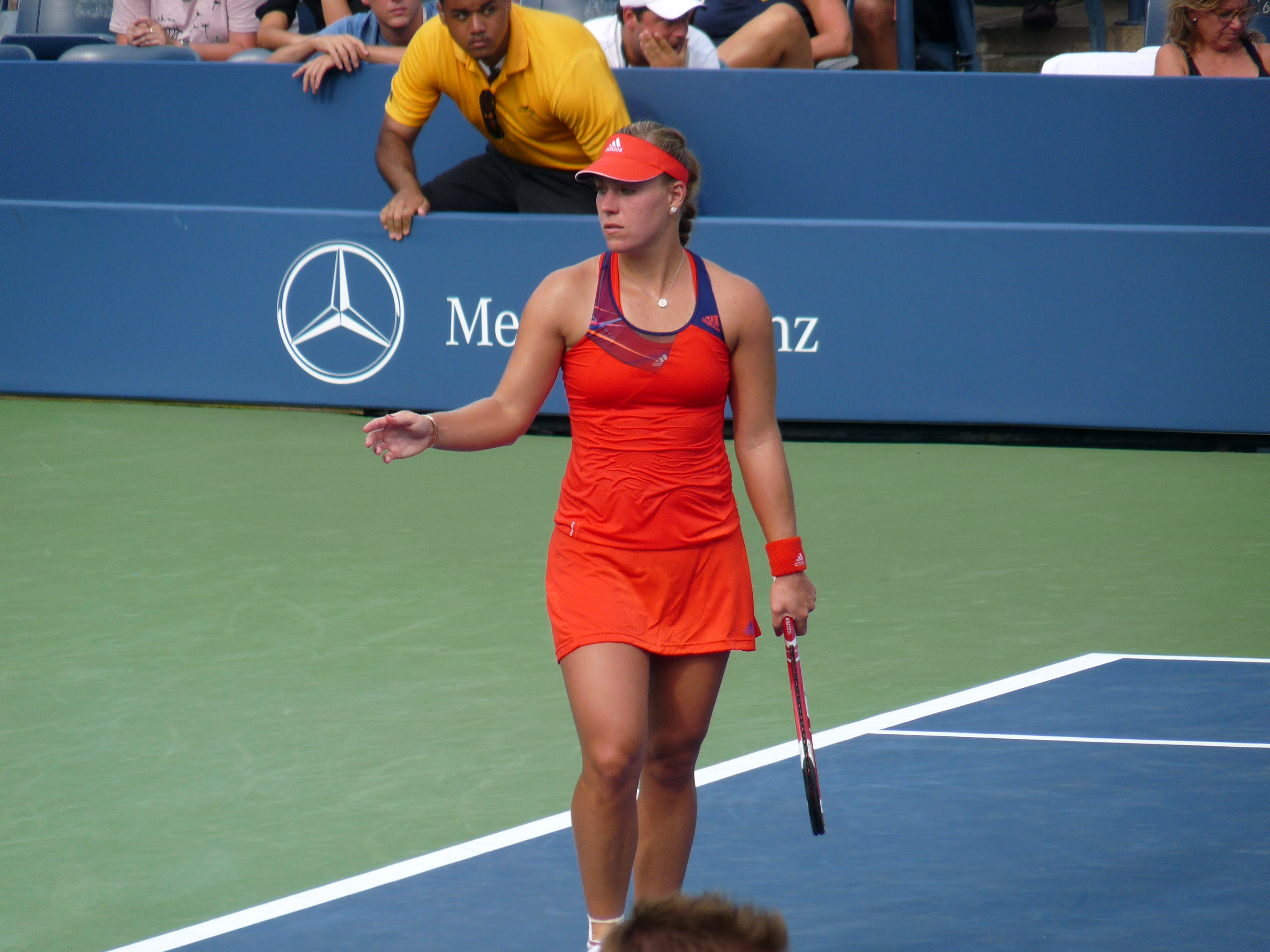 US Open 2013 - Women's Singles 4th Round (Louis Armstrong Stadium) - Carla Suárez Navarro [18] vs. Angelique Kerber [8] - 4–6, 6–3, 7–6(7–3)